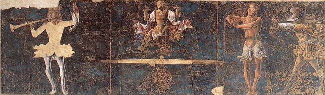 various Ferrarese artist Allegory of September Fresco Palazzo Schifanoia, Ferrara